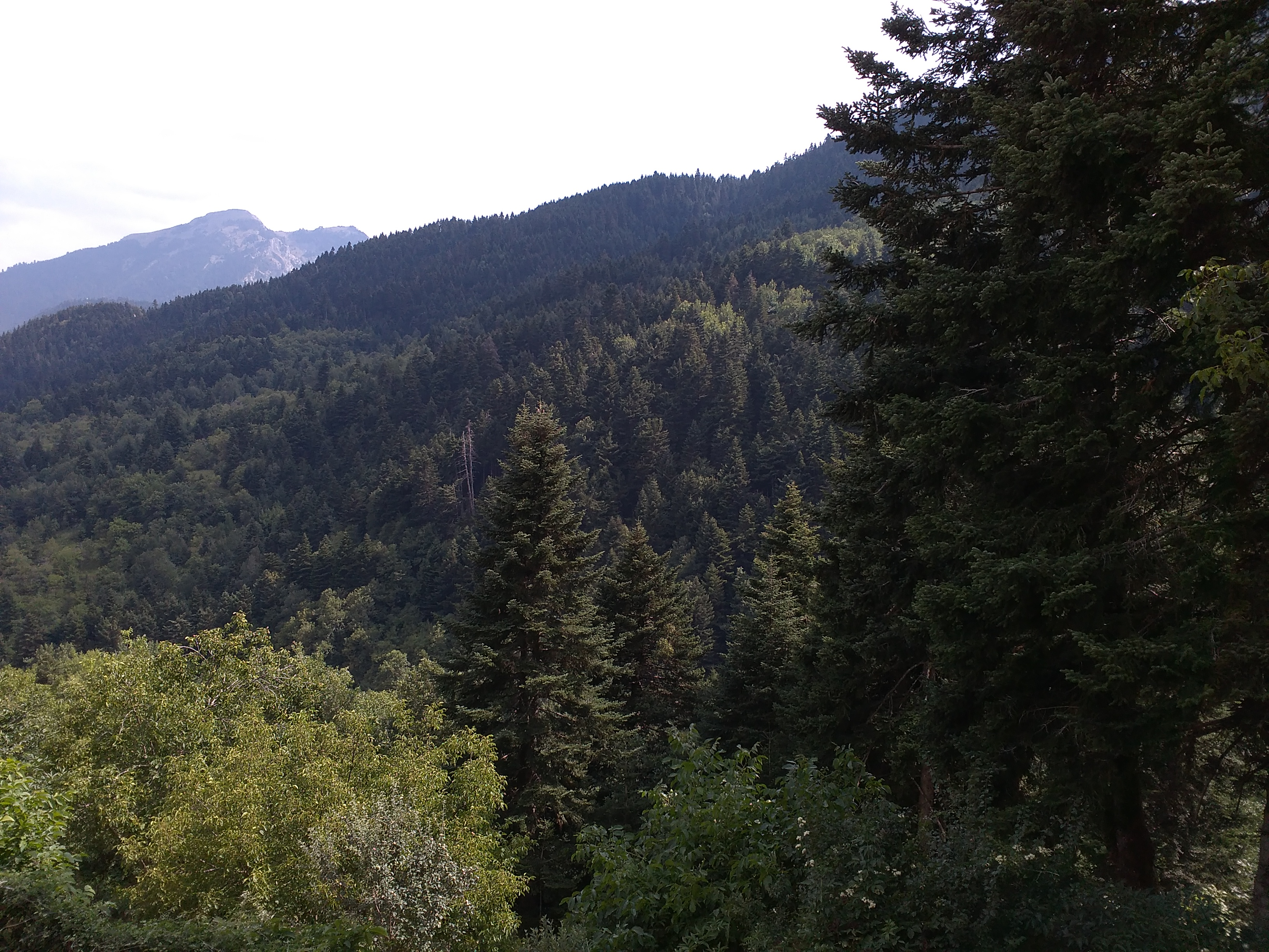 This is a photography of Natura 2000 protected area with ID GR1410002